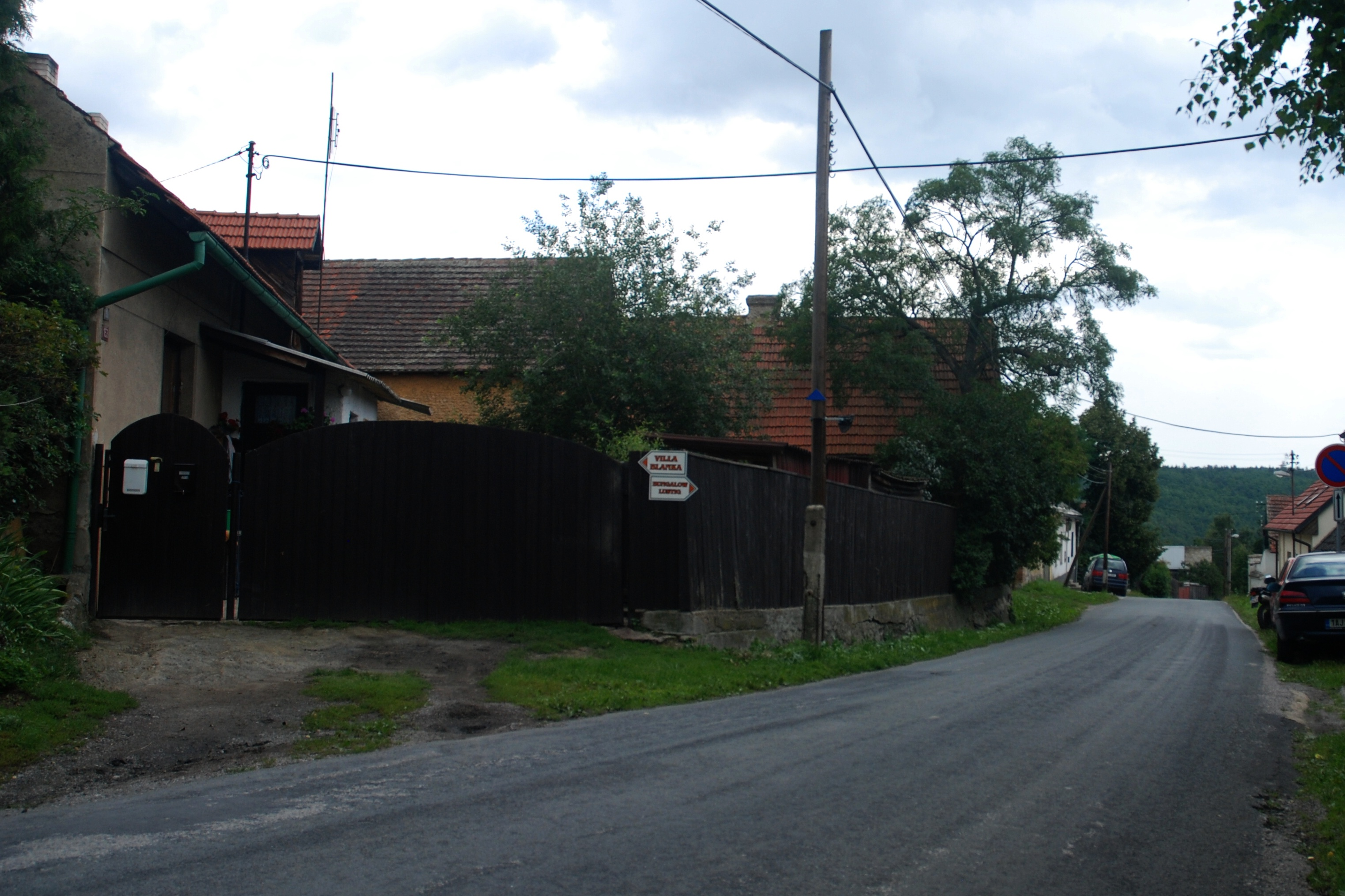 This photograph was taken within the scope of the third year of the 'Czech Municipalities Photographs' grant. Podkozí - pohled do ulice